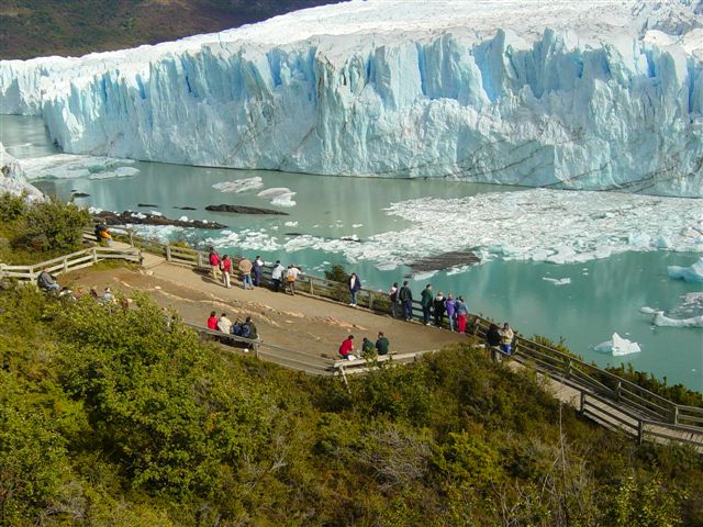 Perito Moreno Glacier, in Los Glaciares National Park, southern Argentina